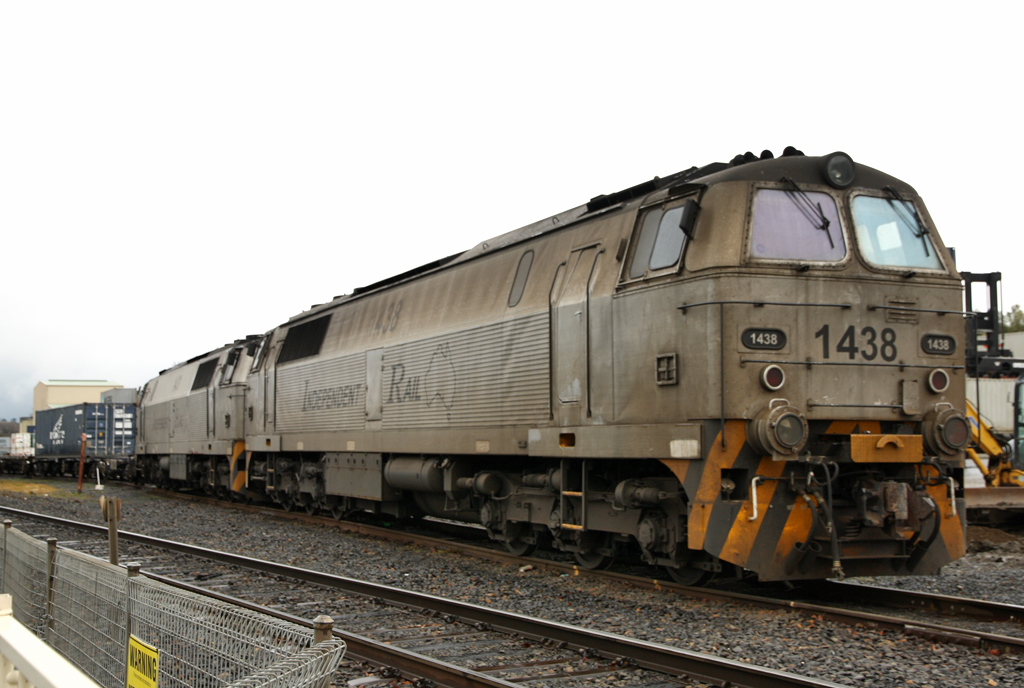 MZ Class locomotive 1438 operated by Independent Rail of Australia, at Blayney Station, NSW Australia.